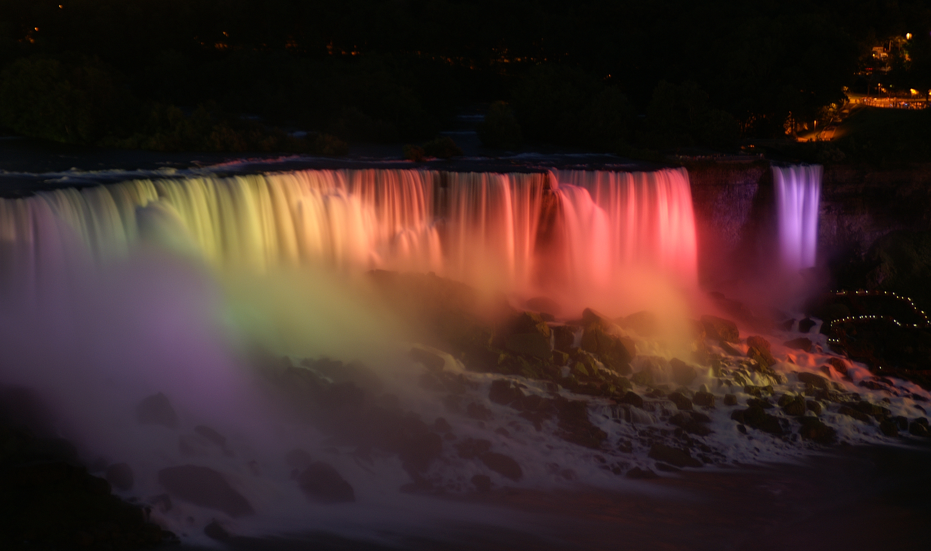 American falls at night.